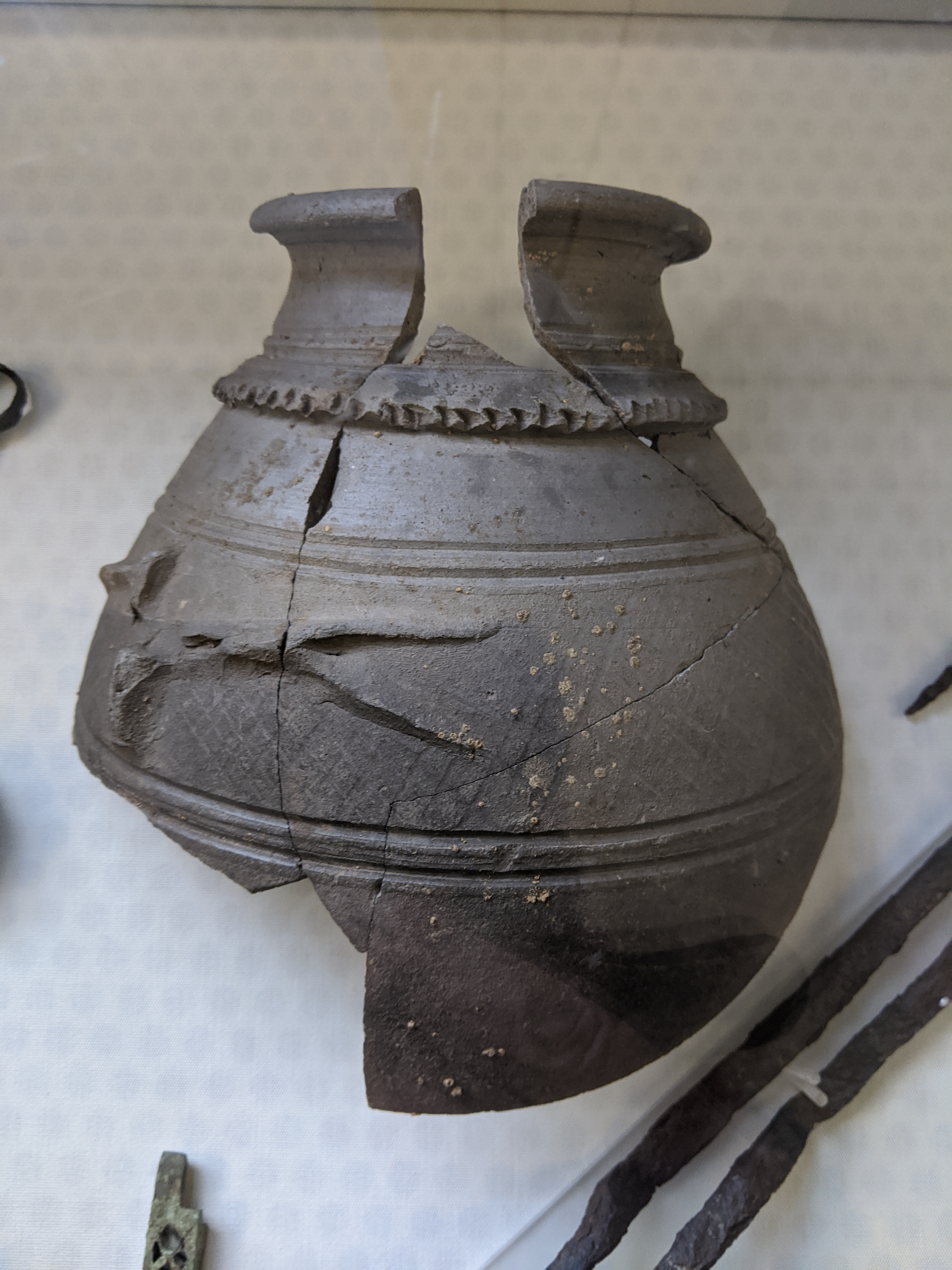 Part of a pot discovered in 2020 in Aldborough, North Yorkshire, from the Roman Town of Isurium Brigantum. The portion shown is on display in the Museum at Aldborough Roman Town, but the whole pot is too large to fit in the display case.